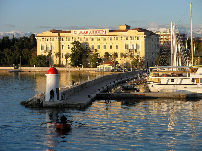 Maraska house in Zadar in Croatia / Adriatic Sea seen from the old city.